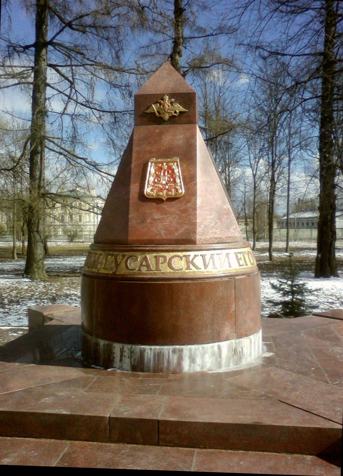 Photo mar29, 2016